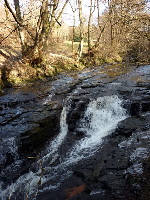 Cascade on Artle Beck, Littledale A short distance below the confluence with Udale Beck. The scout campsite is on the opposite bank.